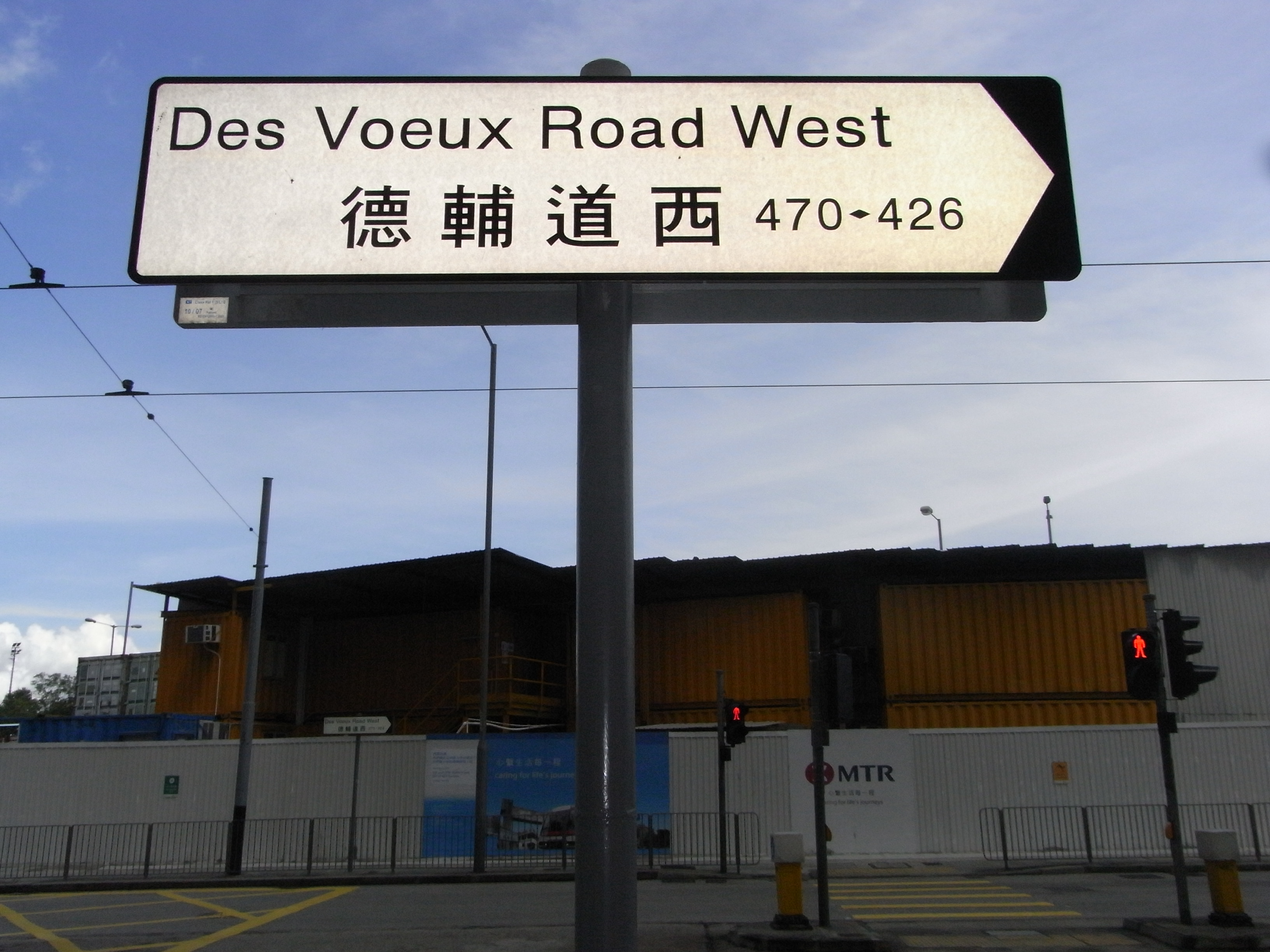 西環 德輔道西